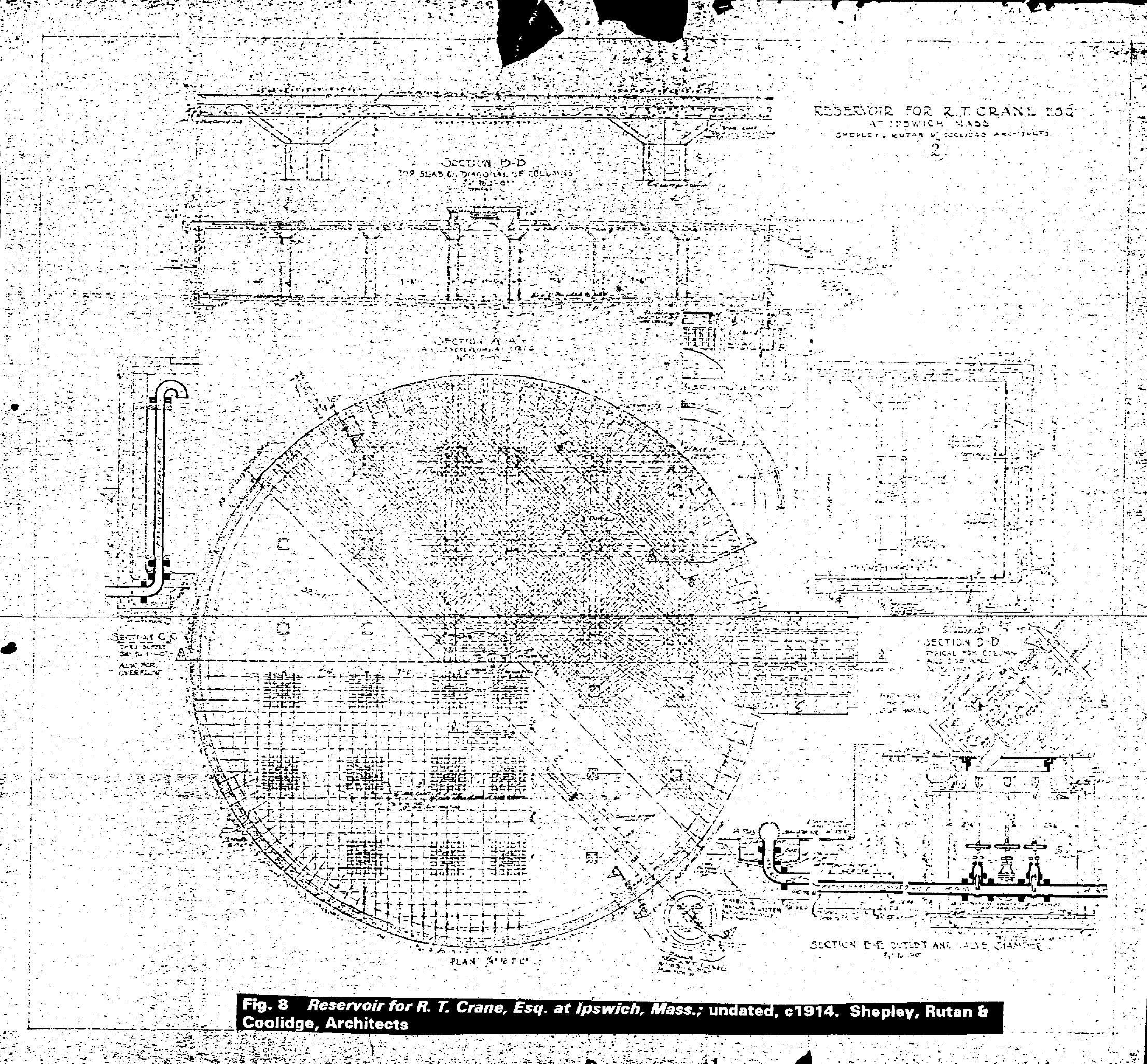 Drawing of the reservoir at Castle Hill, Ipswich, Massachusetts. Created by Shepley, Rutan and Coolidge, c. 1914.